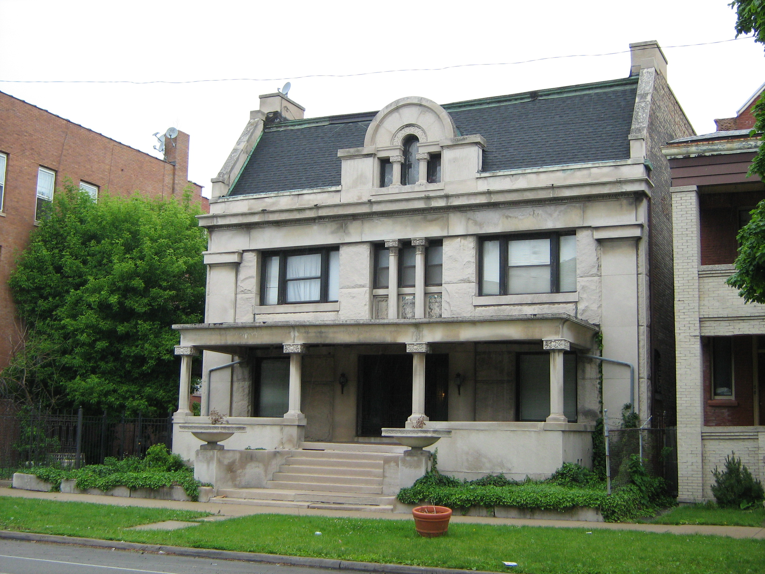 3234 W Washington Blvd Chicago, IL 60624